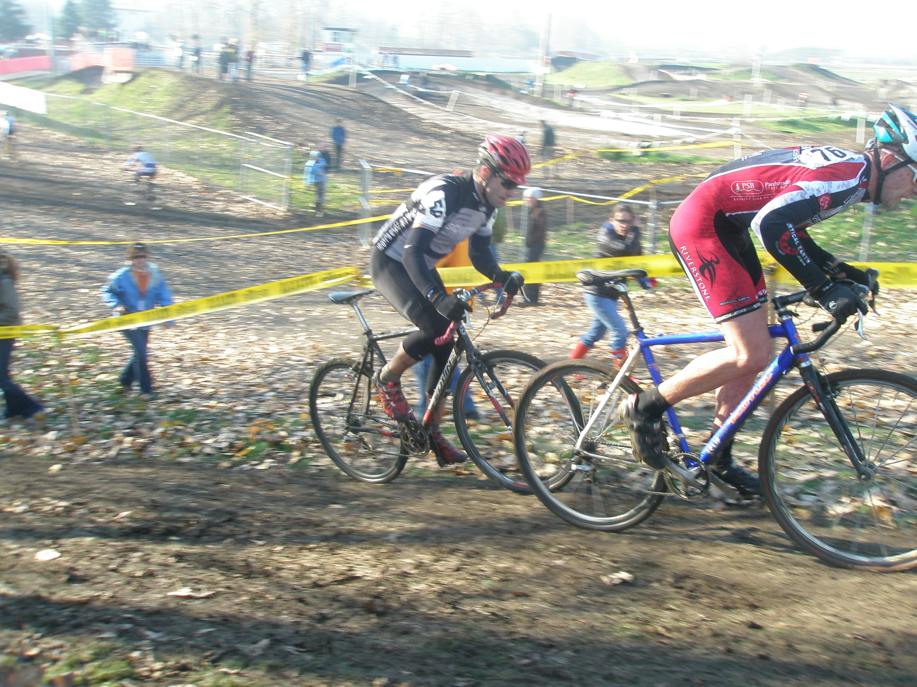 johnlimbaugh